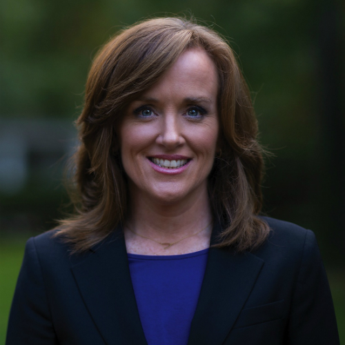 This is a headshot for Kathleen Rice.